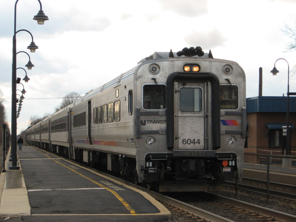 Train #5738, led by #6044, at Dunellen Station.